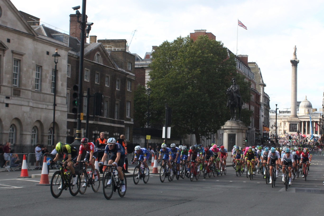 The final stage of the Tour of Britain is usually a circuit race around London. Here is the peloton in 2018. After passing Nelson's Column in Trafalgar Square they are now going down Whitehall towards the Cenotaph and House of Parliament.